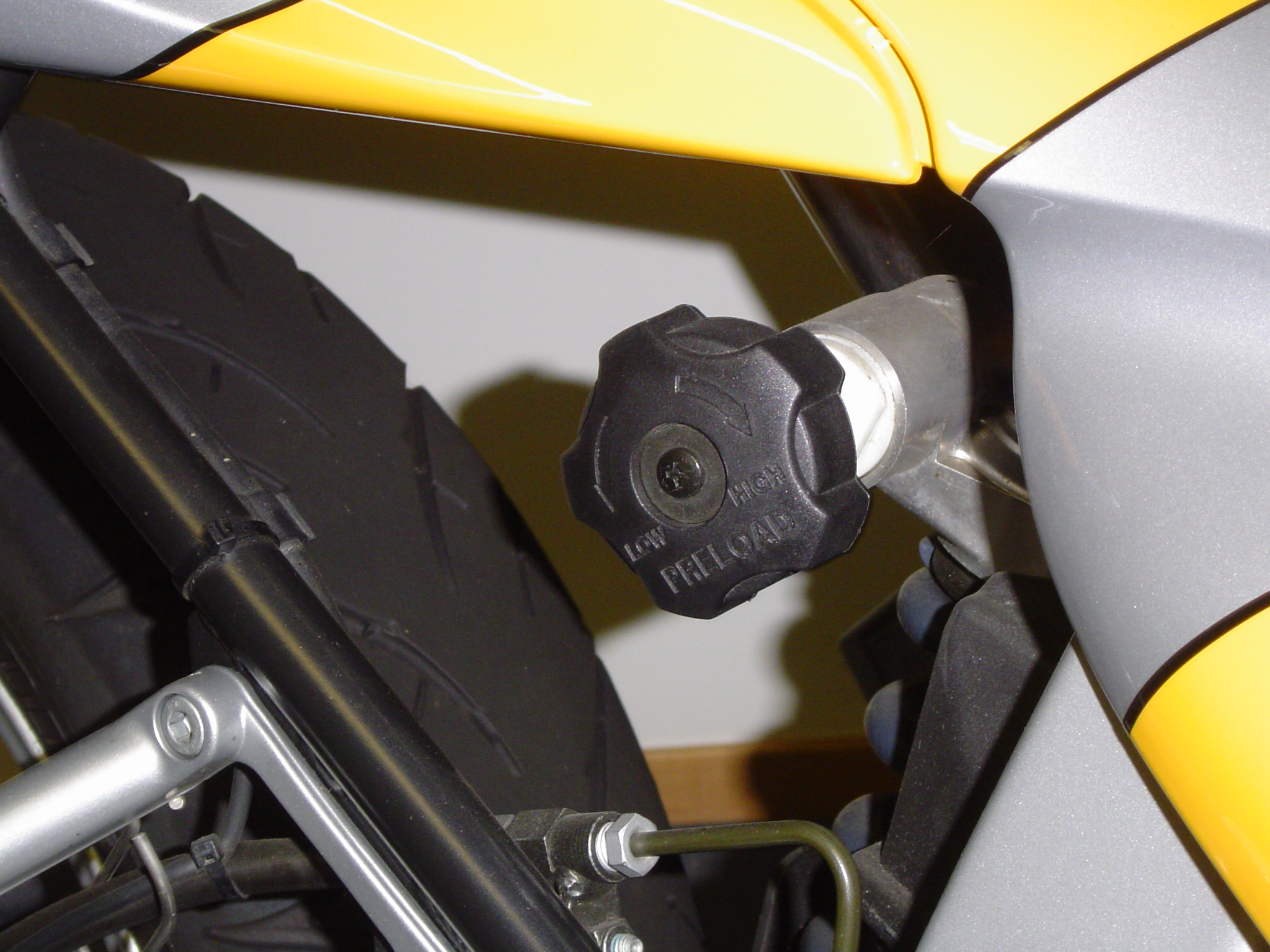 Rear shock preload adjustment knob on a BMW motorcycle.